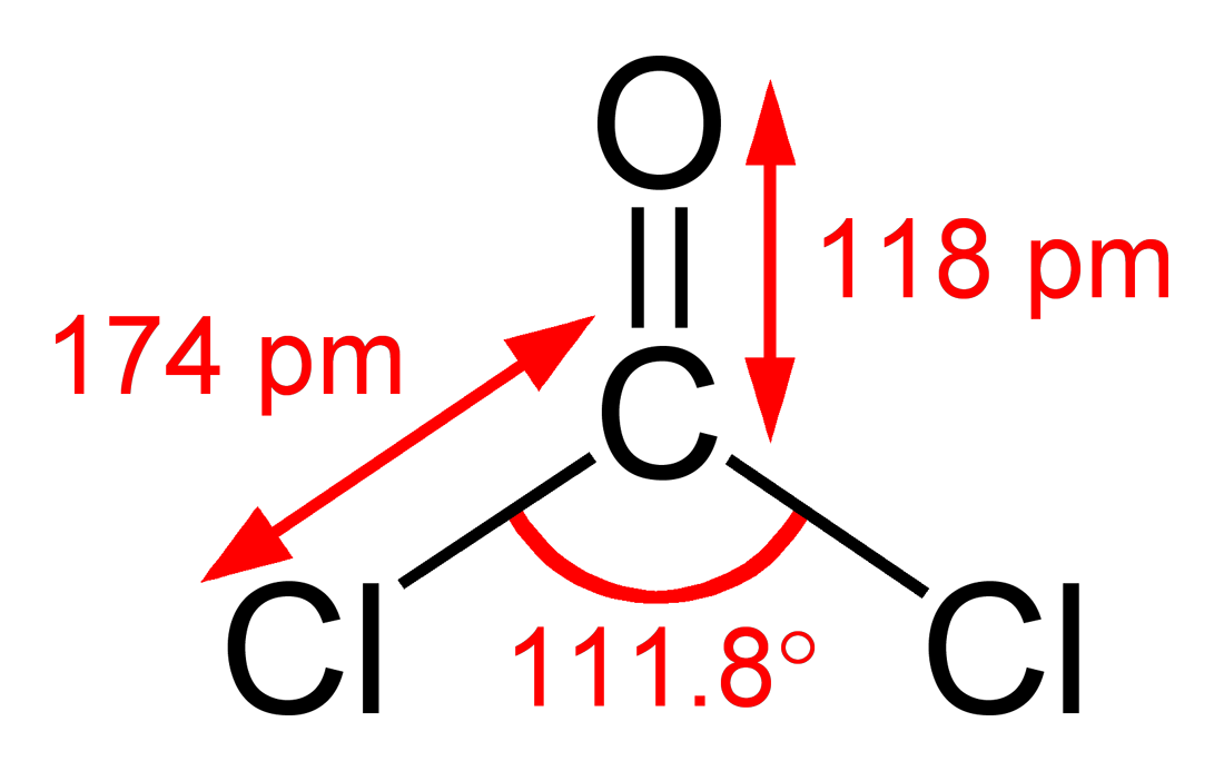 Structural formula of phosgene, COCl2, with bond angles and lengths annotated